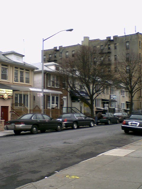 The houses and architecture proper for the east of Brighton Beach Area